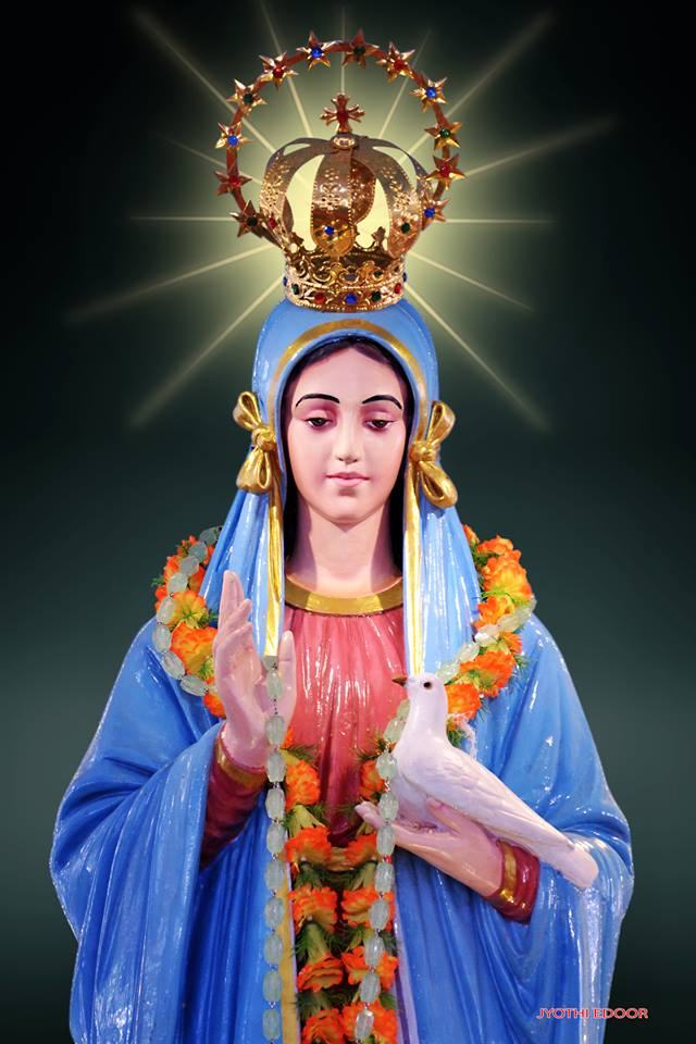 Photo of the statue of St. Mary (Edooramma) in St. Mary's Forane Church Edoor.